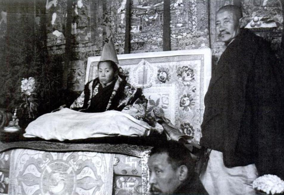 The Dalai Lama, photographed in 1942 by the official United States expedition to Tibet headed by Ilya Tolstoy and Brooke Dolan